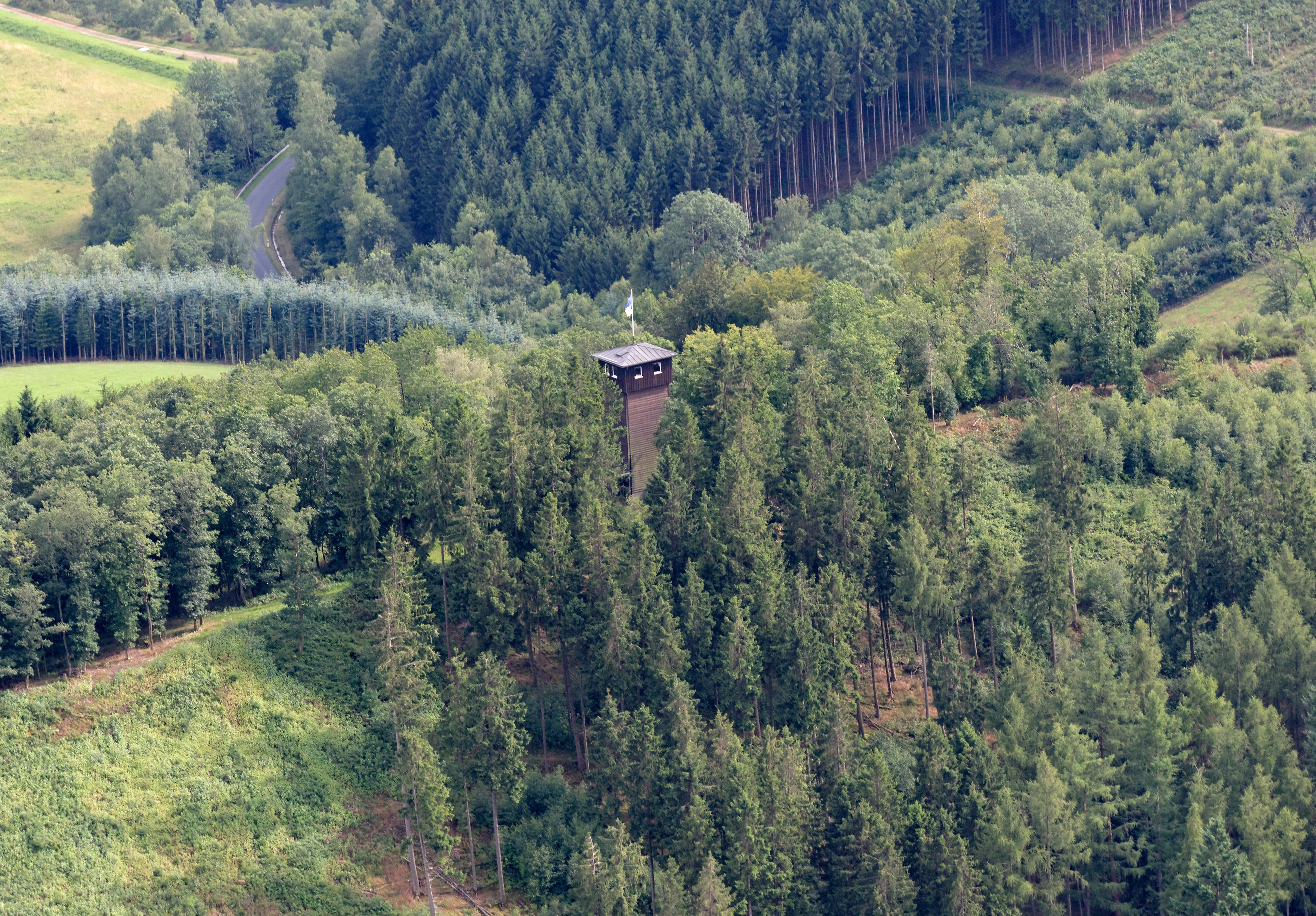 The making of this document was supported by the Community-Budget of Wikimedia Germany. Wallburgturm und Wallanlage Weilenscheid auf der Erhebung Weilerscheid bei Elspe